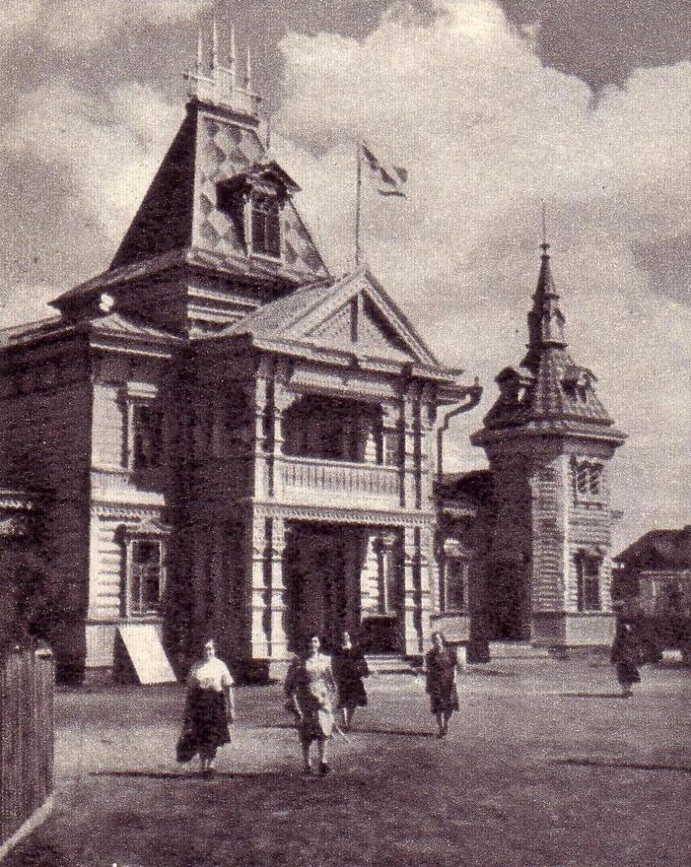 Tobolsky Theater, photo 1956